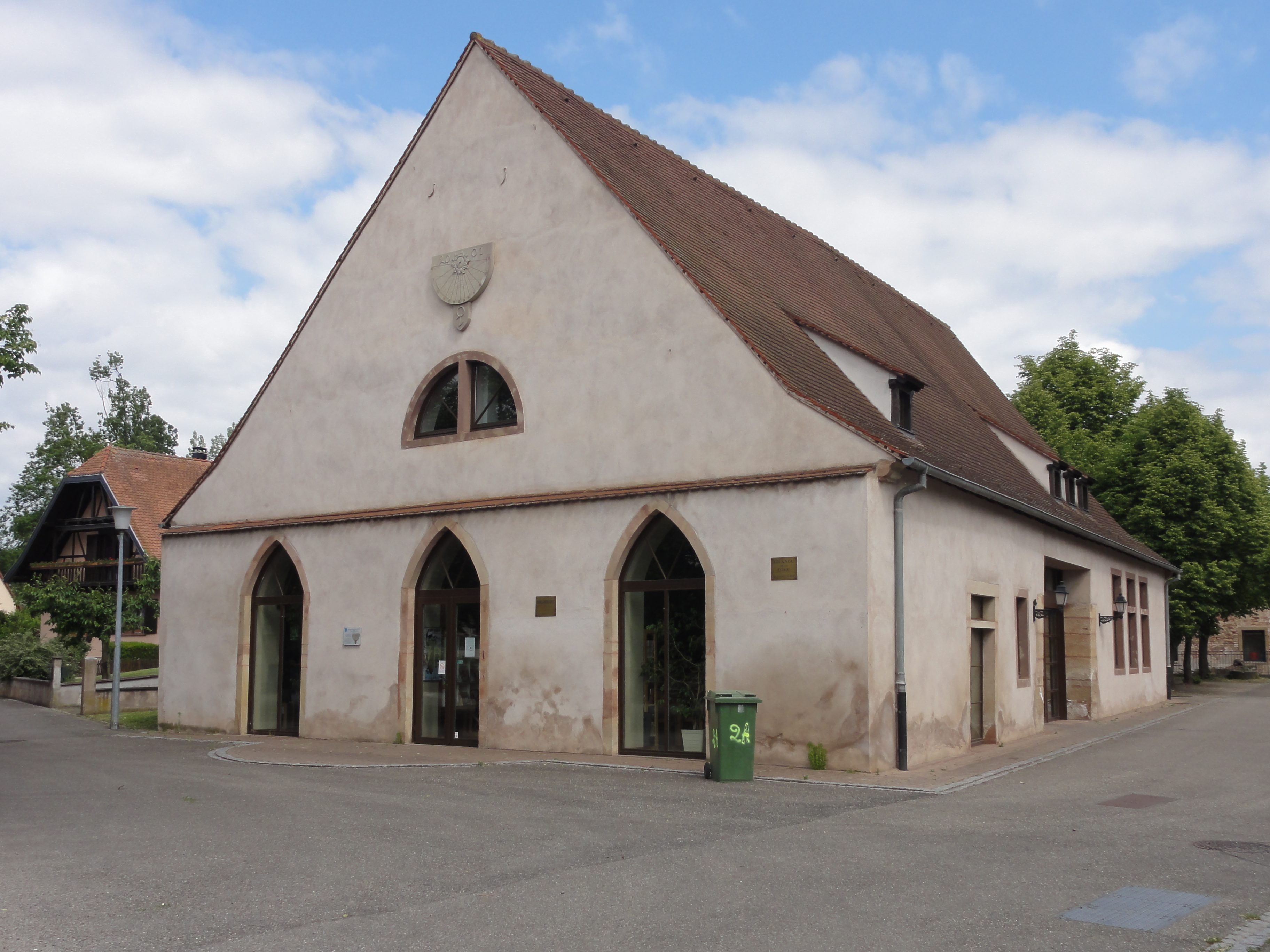 Alsace, Bas-Rhin, Altorf, Grange dîmière (XVIIIe), Cour de la Dîme. It is indexed in the Base Mérimée, a database of architectural heritage maintained by the French Ministry of Culture, under the references PA00125214 and IA67011111.